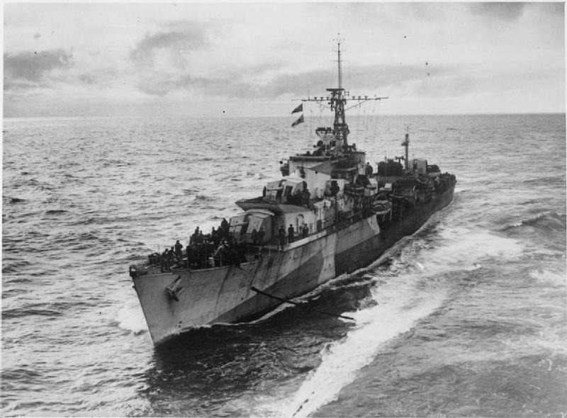 HMS Myngs Underway, preparing to refuel..